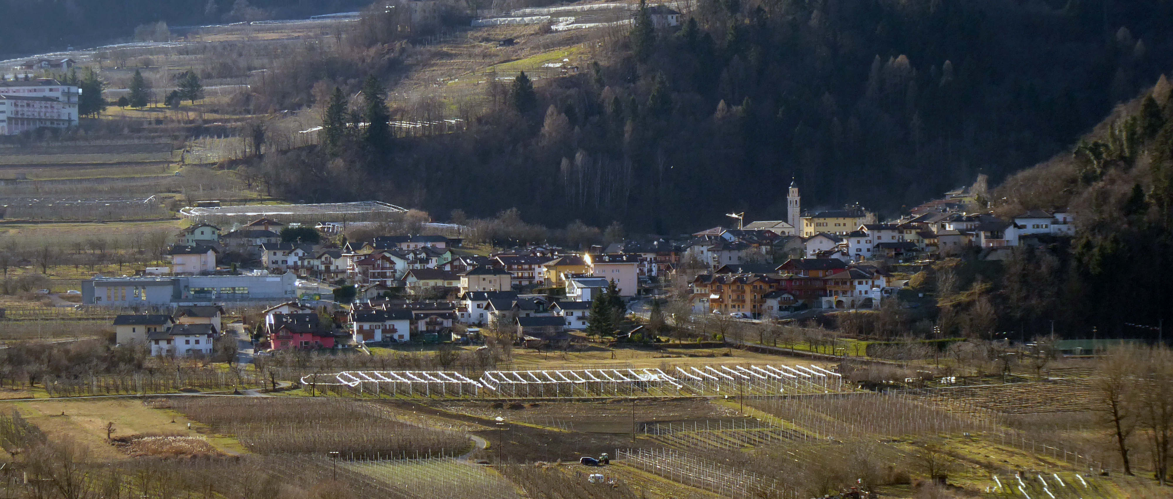 Costasavina as seen from Casalino (Pergine Valsugana)